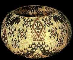 A photo of a 30" diameter basket made by Carrie Bethel, a Mono Lake Paiute associated with Yosemite National Park